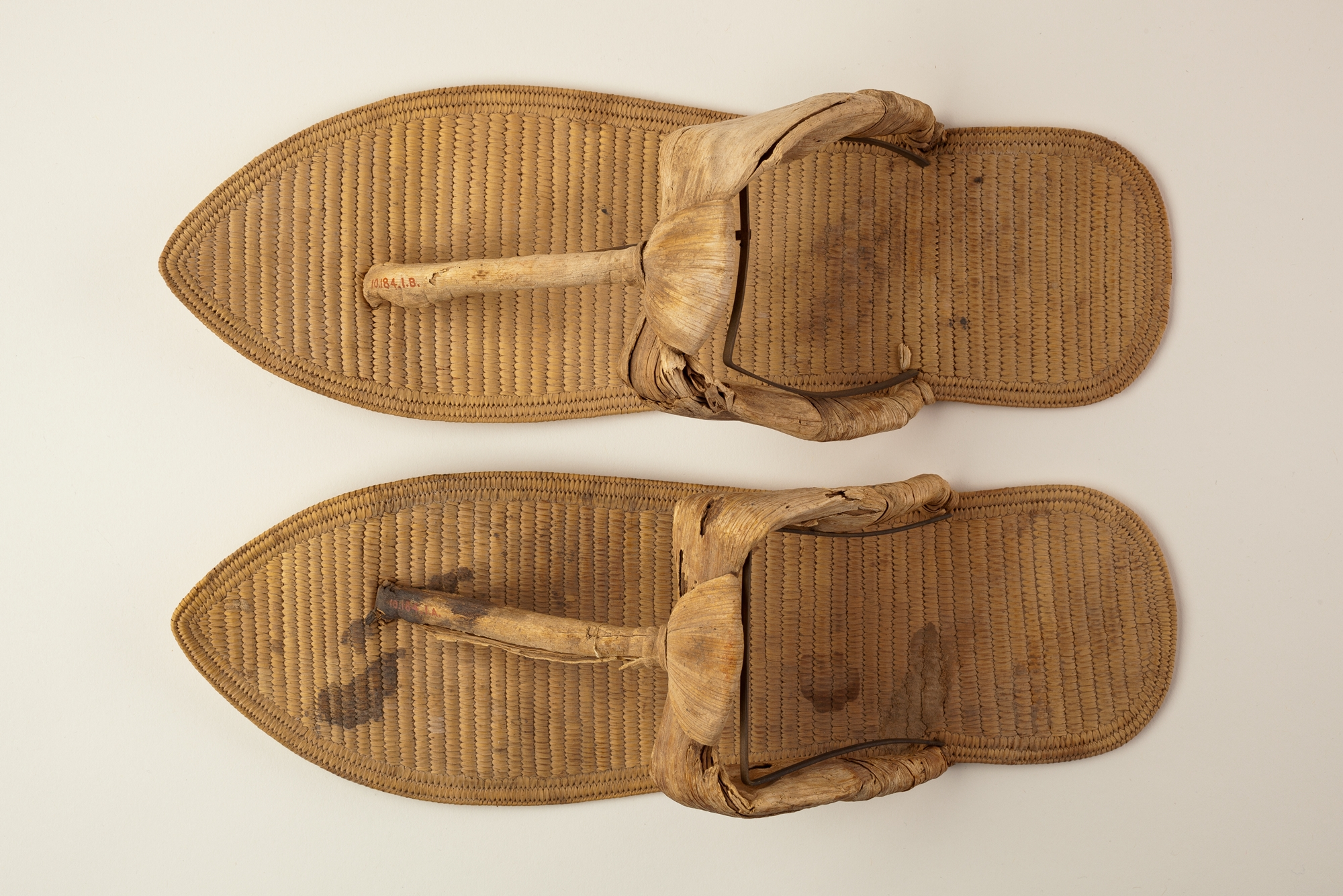 Sandals, Yuya & Tjuyu